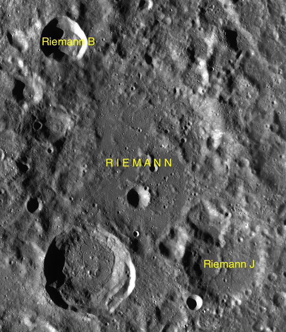 Part of the chart LAC-29 used for the presentation